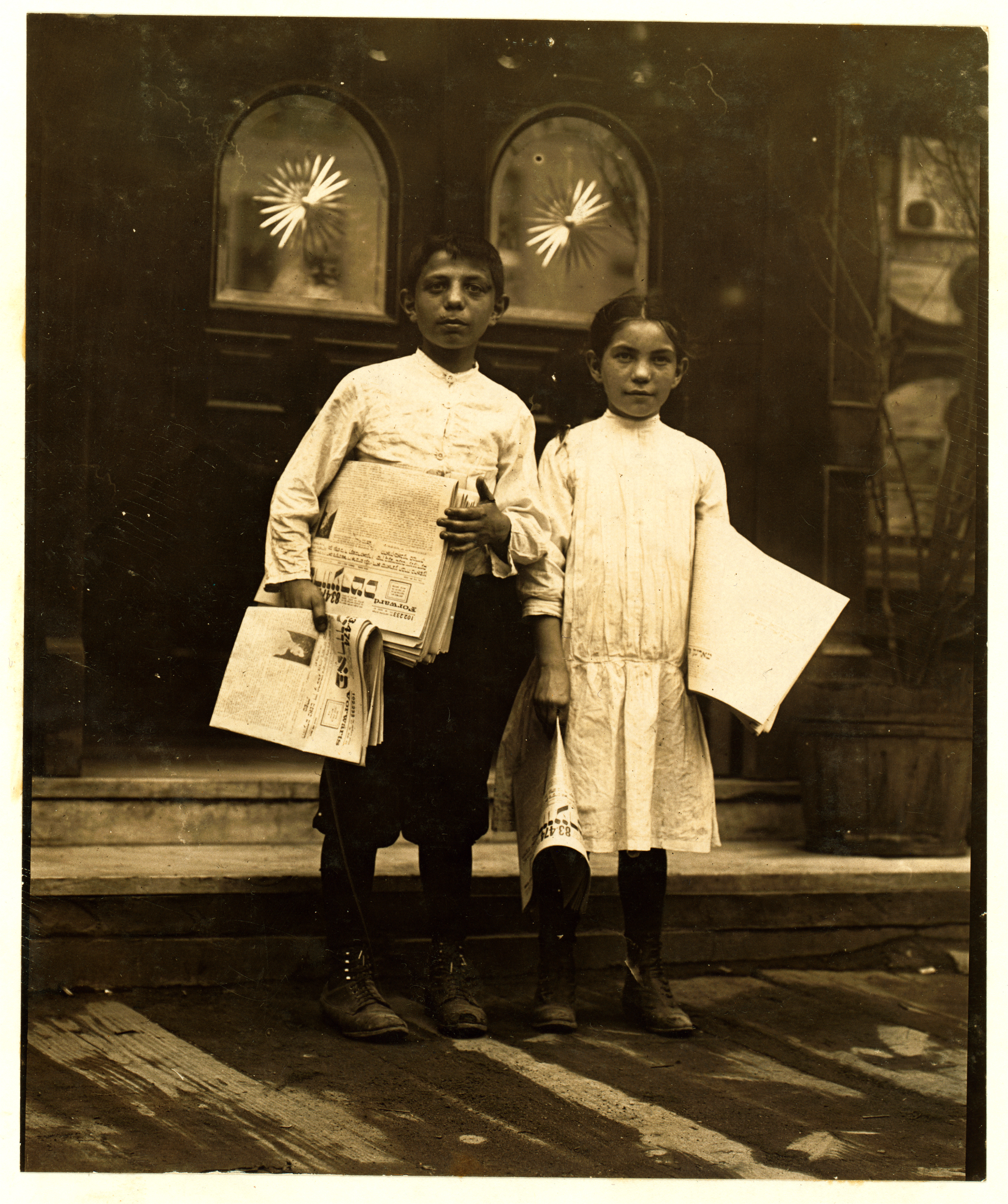 Newsgirl & Boy Selling around saloon entrances. Bowery. Location: New York, New York. Photograph by Lewis Wickes Hine, July 1910.